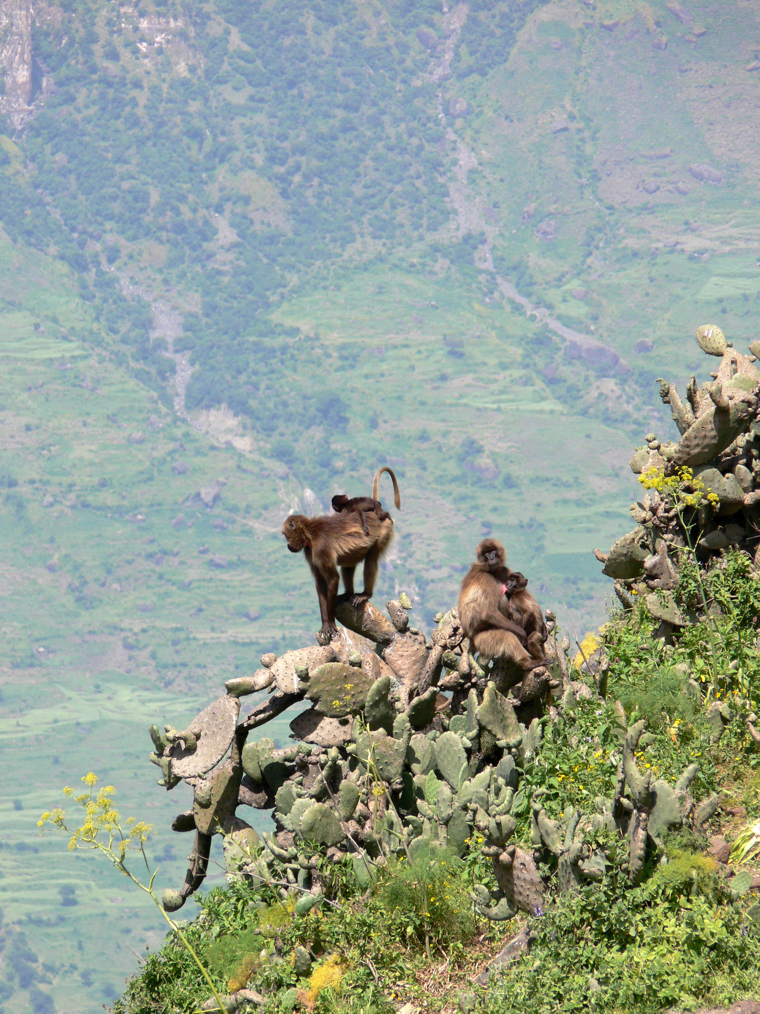 Monkey in north Ethiopia in front of the blue nile valley